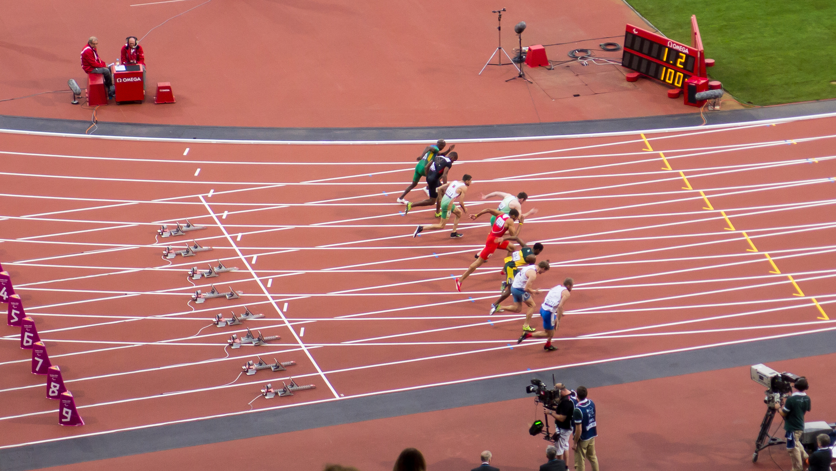 Jason Smyth breaking the men's T13 world record at the 2012 Paralympic Games in London.